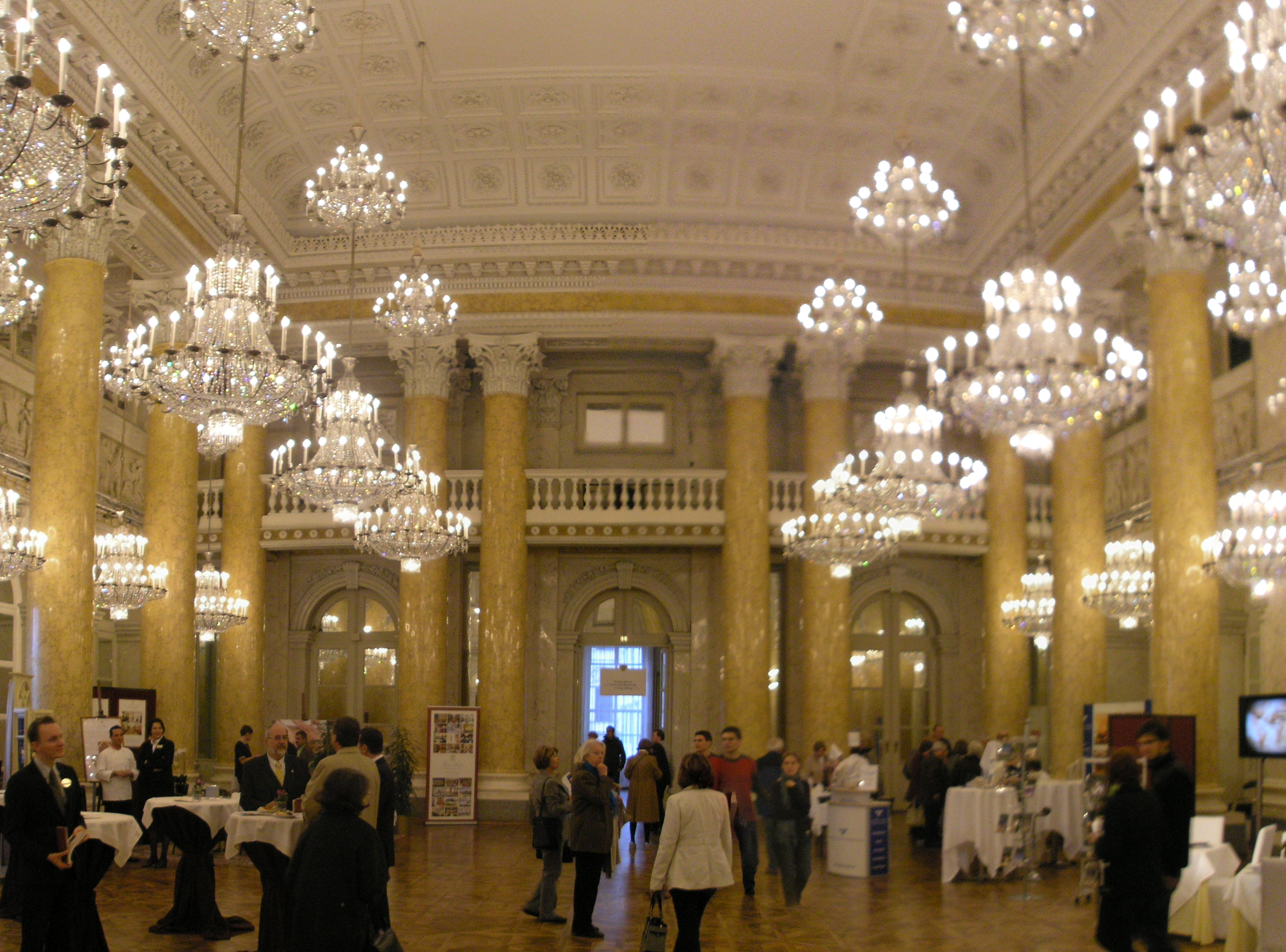 Zeremoniensaal in the Hofburg.